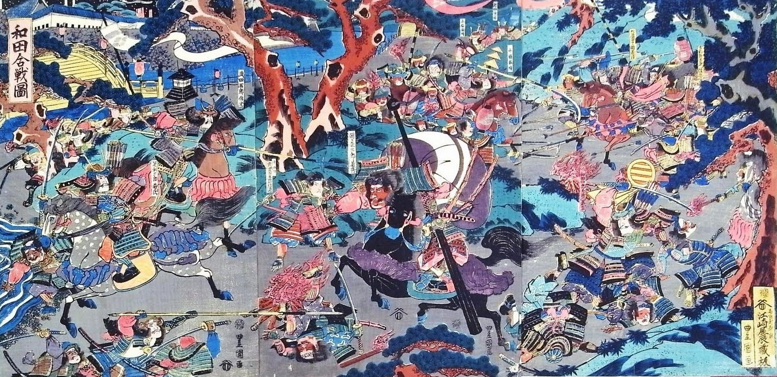 An ukiyo-e of the Battle of Wada.